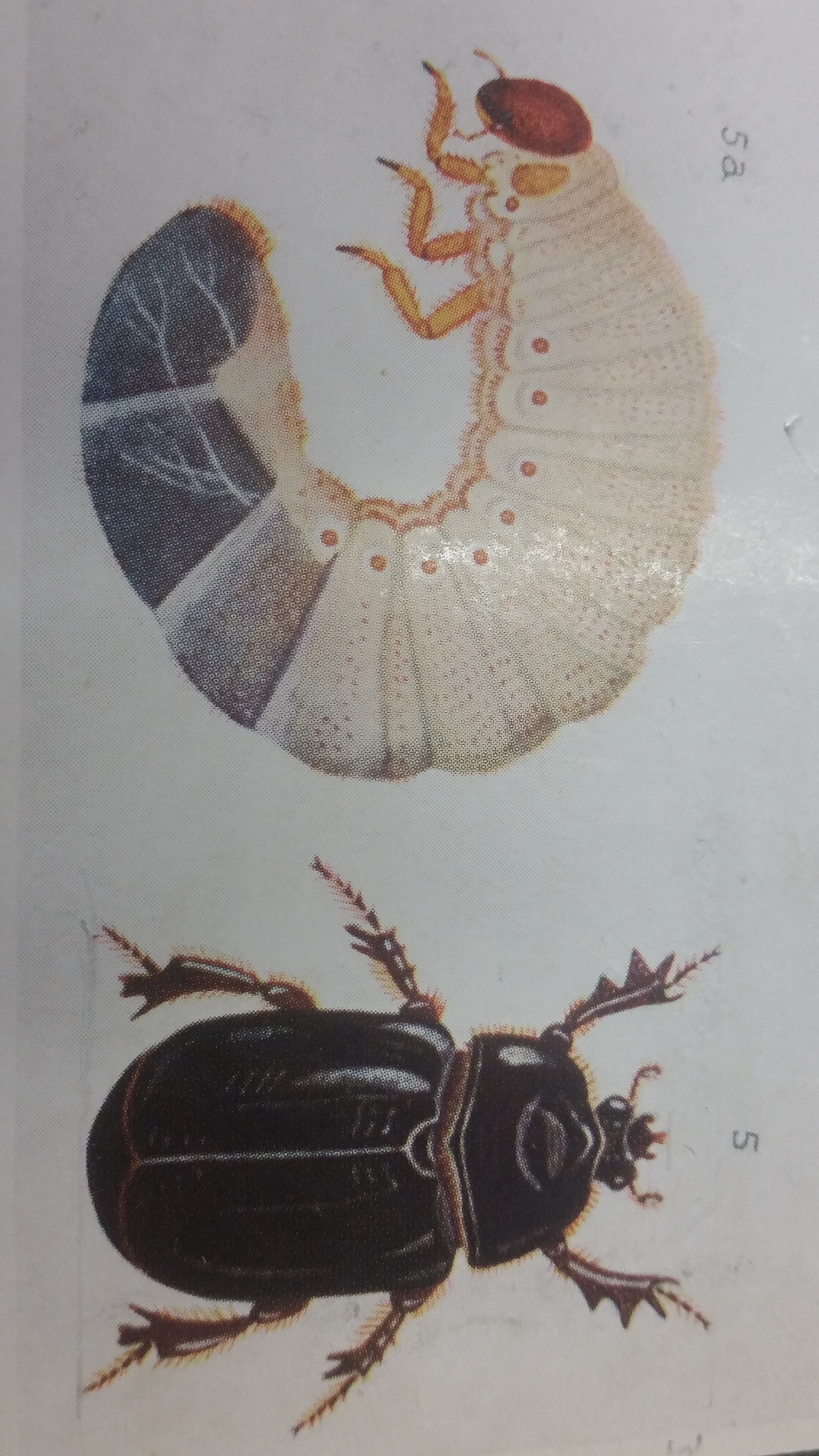 A photograph of a drawing of the adult and larvae stage of Pericoptus truncatus. Part of plate XVII drawn by George Vernon Hudson sourced from the book New Zealand Beetles and their Larvae by George Vernon Hudson. Public Domain.